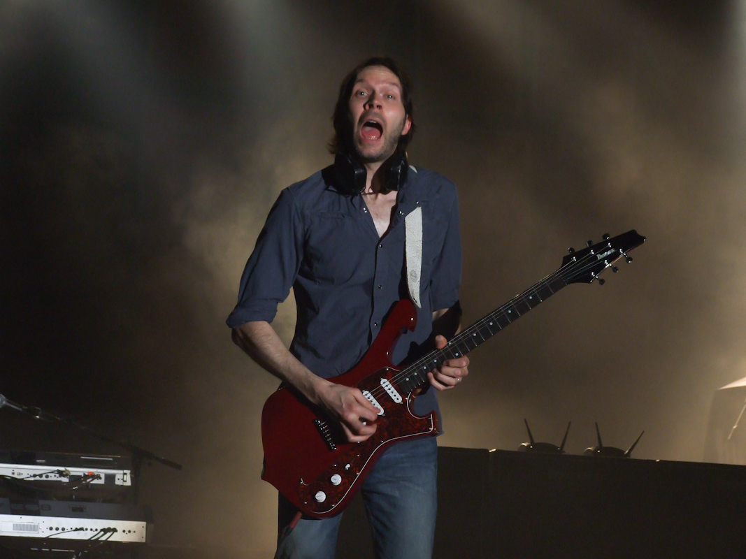 Paul Gilbert - the guitarist of the hard rock band Mr. Big. The photo was taken during the Mr.Big concert at Festivalna Hall, Sofia, Bulgaria.